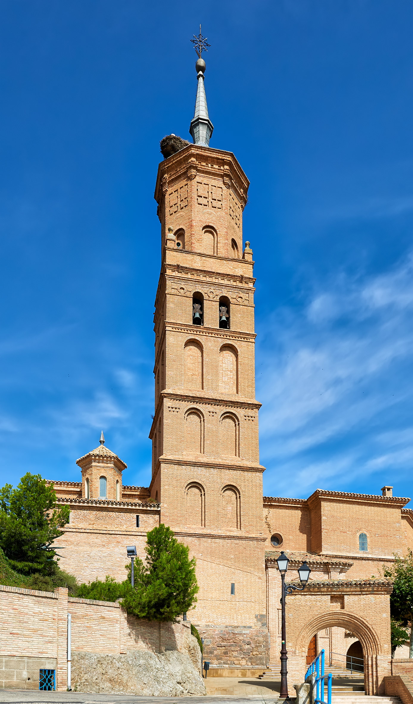 Church of Funes, Navarra (Spain)